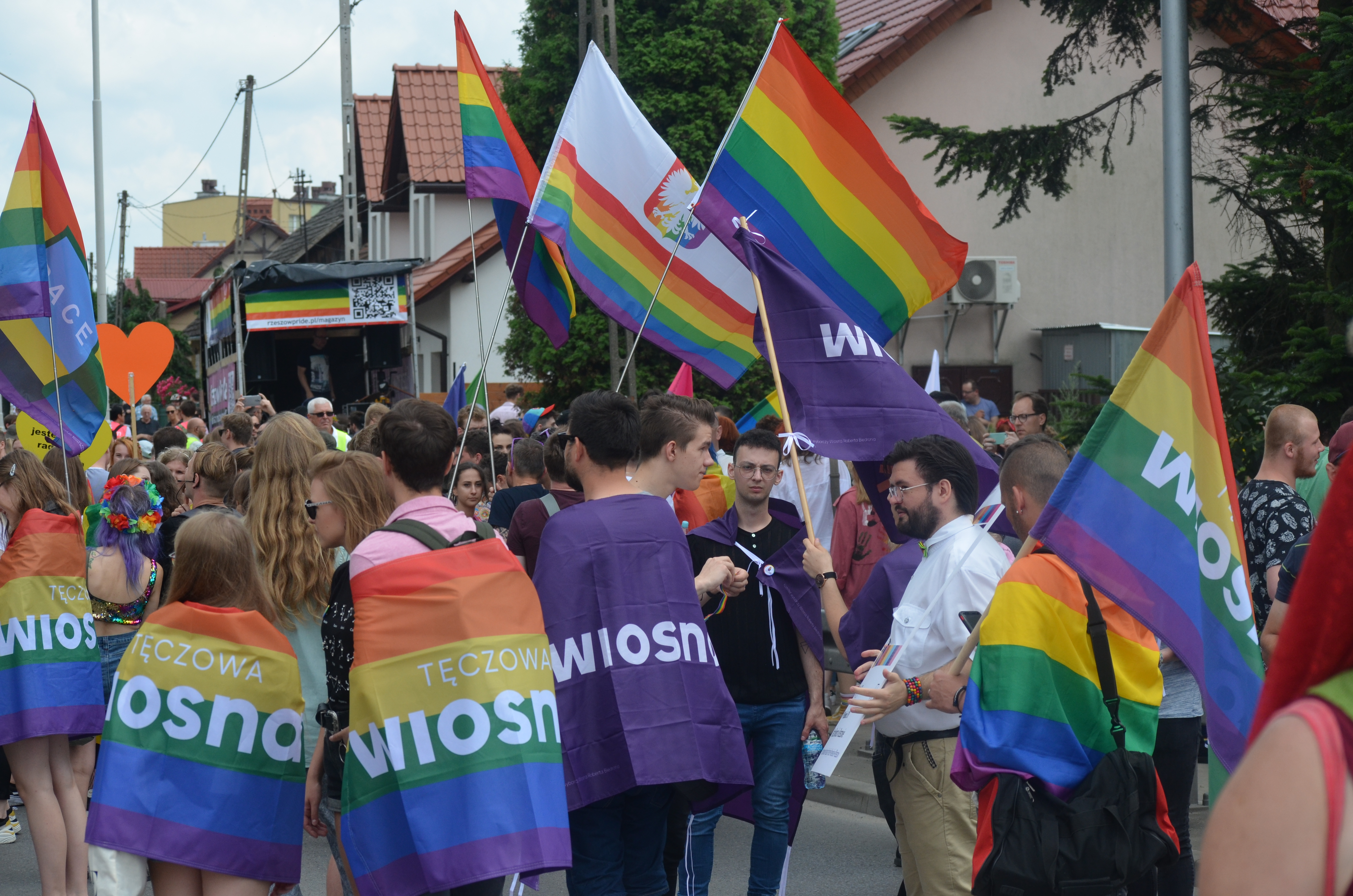 Rzeszów PrideLocation: Poland, RzeszówEvent type: pride paradeDate or year: 2019-06-22